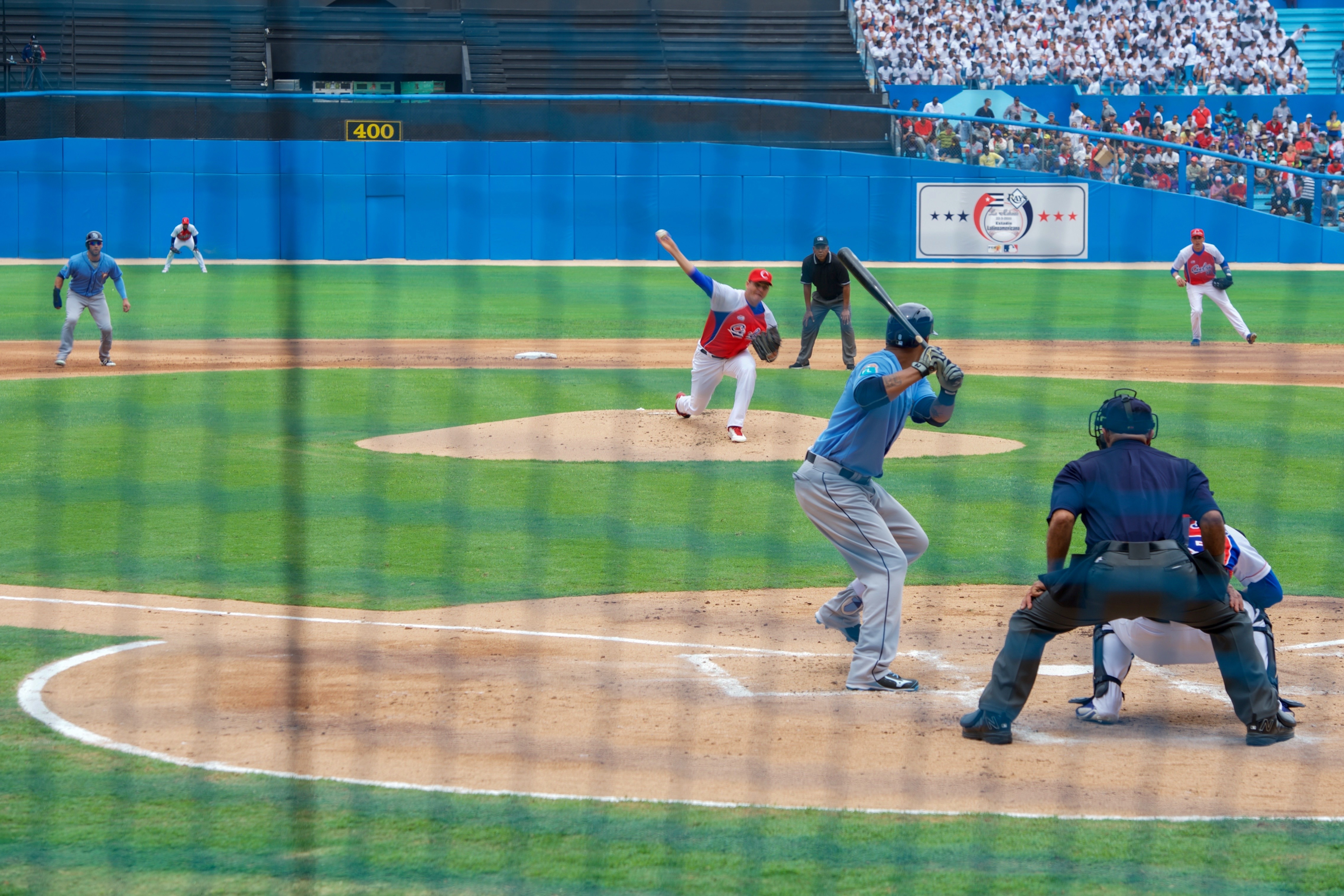 A pitcher from the Cuban National Baseball Team throws a pitch to a member of the Tampa Bay Rays as the two teams stage an exhibition game at the Estadio Latinoamericano in Havana, Cuba, on March 22, 2016, before an audience including U.S. President Barack Obama, Cuban President Raul Castro, and U.S. Secretary of State John Kerry. [State Department photo/ Public Domain]